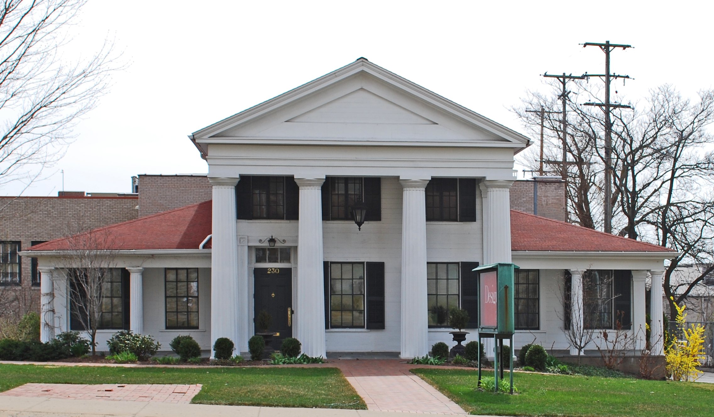 Abram W Pike House Grand Rapids MI. Building is now the offices of Keller & Almassian, PLC: Bankruptcy & Litigation Attorneys. Greek Revival style.